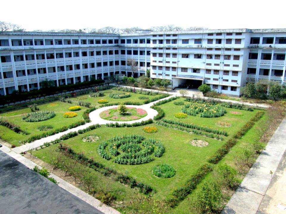 2nd science building